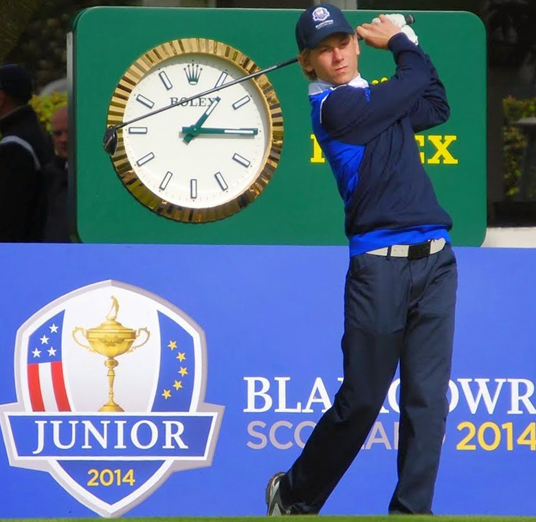 John Axelsen participating in Junior Ryder Cup as 16 years old at Blairgowrie in Scotland